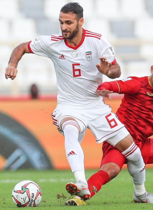 Iran v Vietnam, 12 January 2019 - 2019 AFC Asian Cup